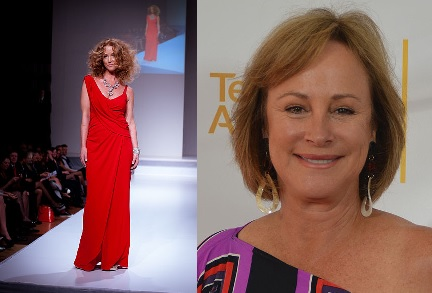 Susan Haskell (left) and Hillary B. Smith (right), who won Emmys in 1994 for their work on the rape gang storyline on the American soap opera "One Life to Live"